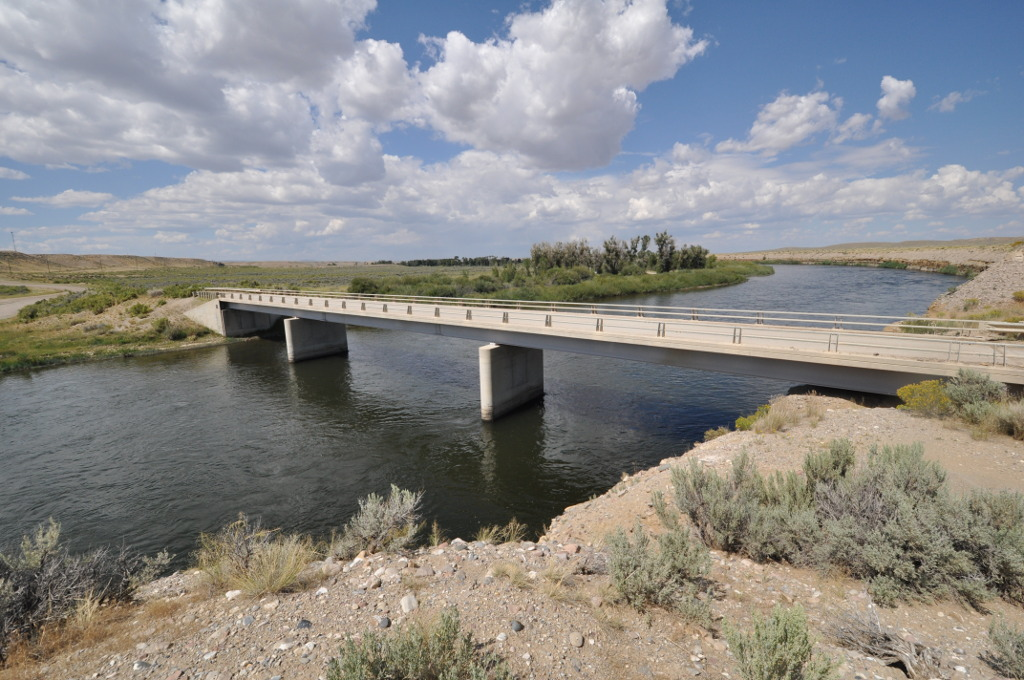 Replacement bridge for the ETD Green River Bridge, near Fontanelle Dam in Sweetwater County, Wyoming.